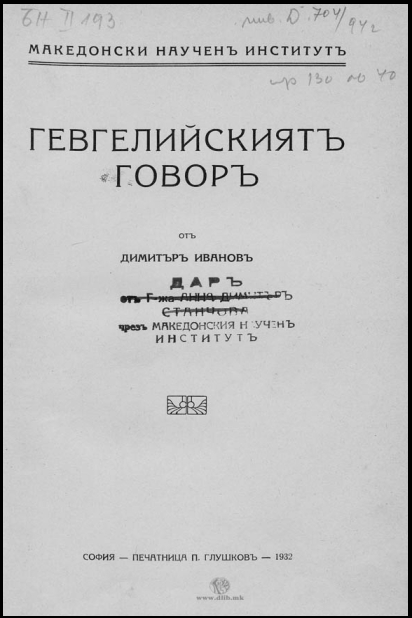 Гевгелийският говор